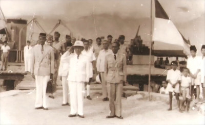 B.W. Lapian (middle, saluting) as Acting Governor of Sulawesi visiting a region of Sulawesi on 11 September 1950